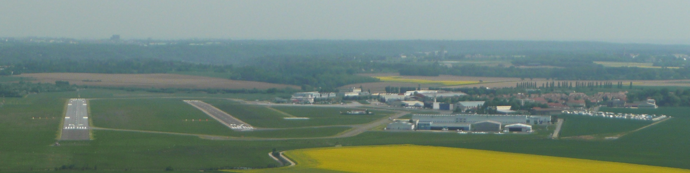 Landing at LFPN - 07L